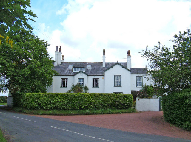 Ollerton Hall, Knutsford. An impressive house just south of the A537, Chelford Road. It is inscribed with the date 1728 and initials PTH.